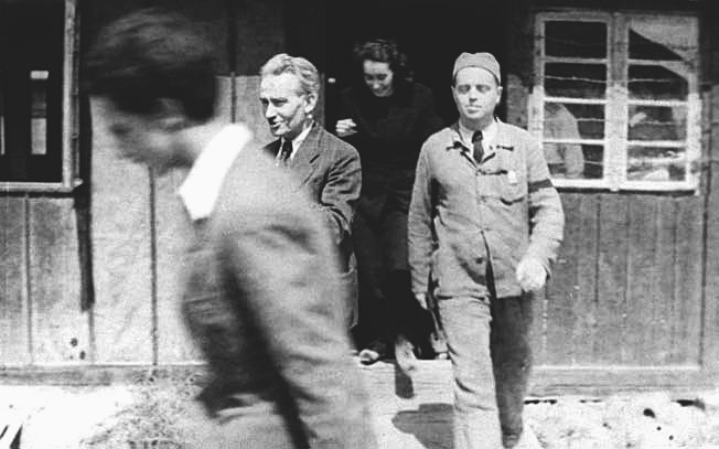 Dimitrije Ljotic and spouses Dragojla and Milovan Popovic leave the Institute for Forced Education of Youth.